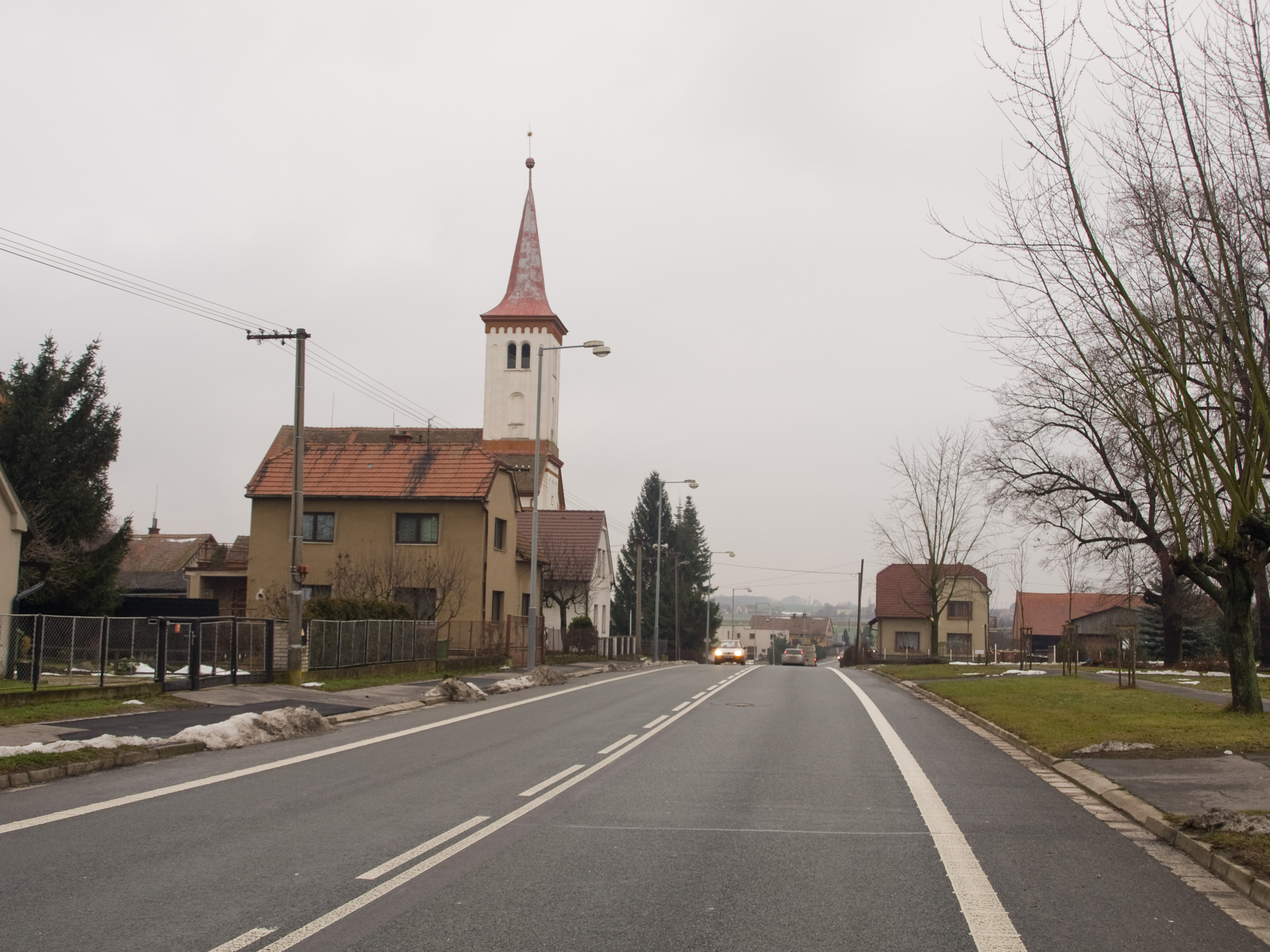 Church, Bukovka, Pardubice District, Pardubice Region